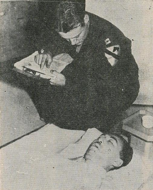 A SCAP coroner performing a postmortem on former prime minister Fumimaro Konoe (1891–1945), who committed suicide by taking potassium cyanide.